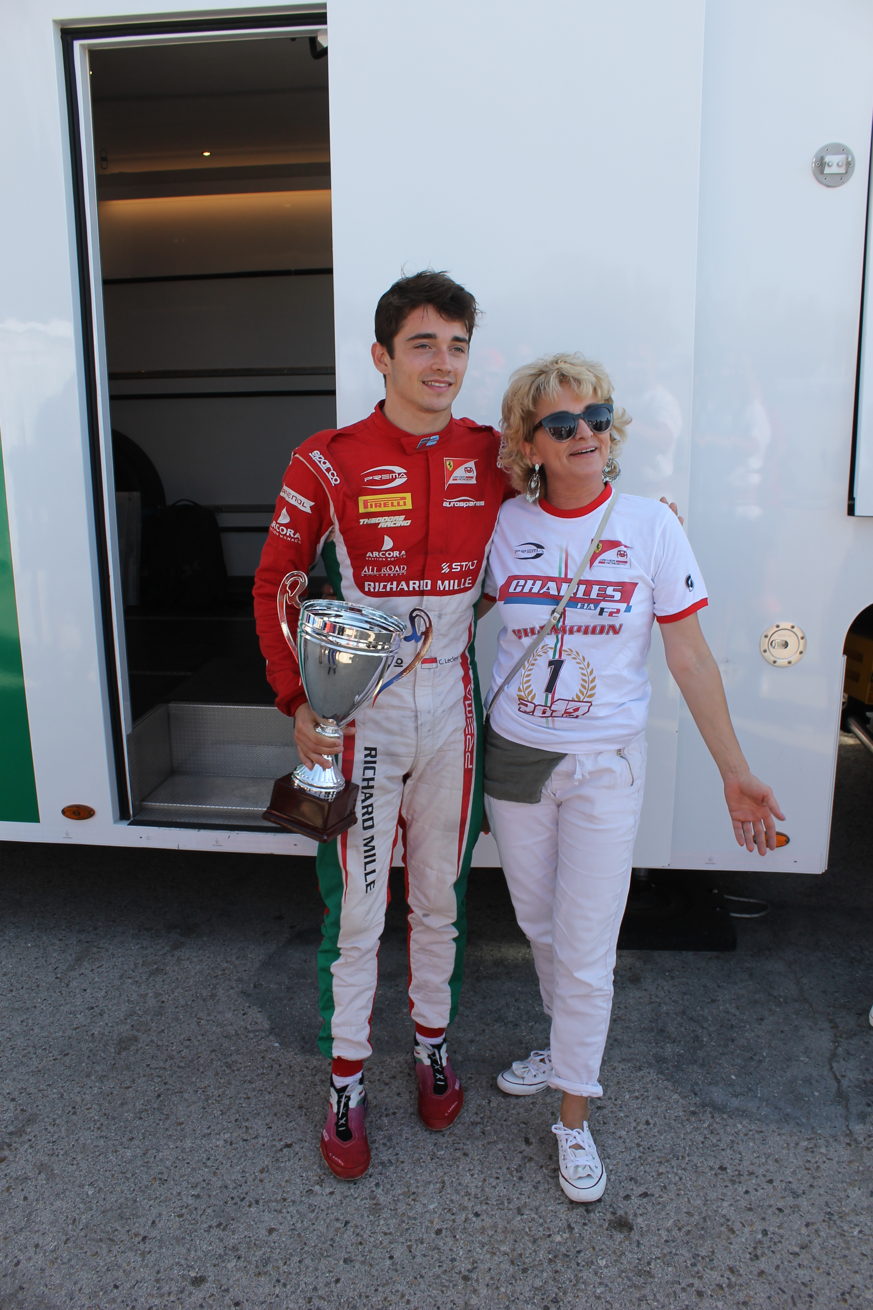 Charles Leclerc and his mother seen in front of the Prema Racing trailer shortly after Charles won the Formula 2 Championship at Jerez, 2017